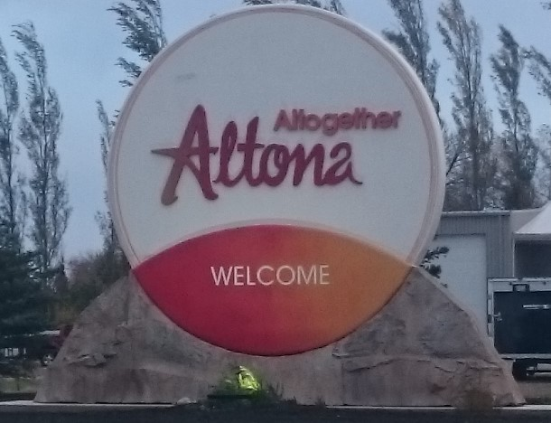 Sign shown entering Altona.